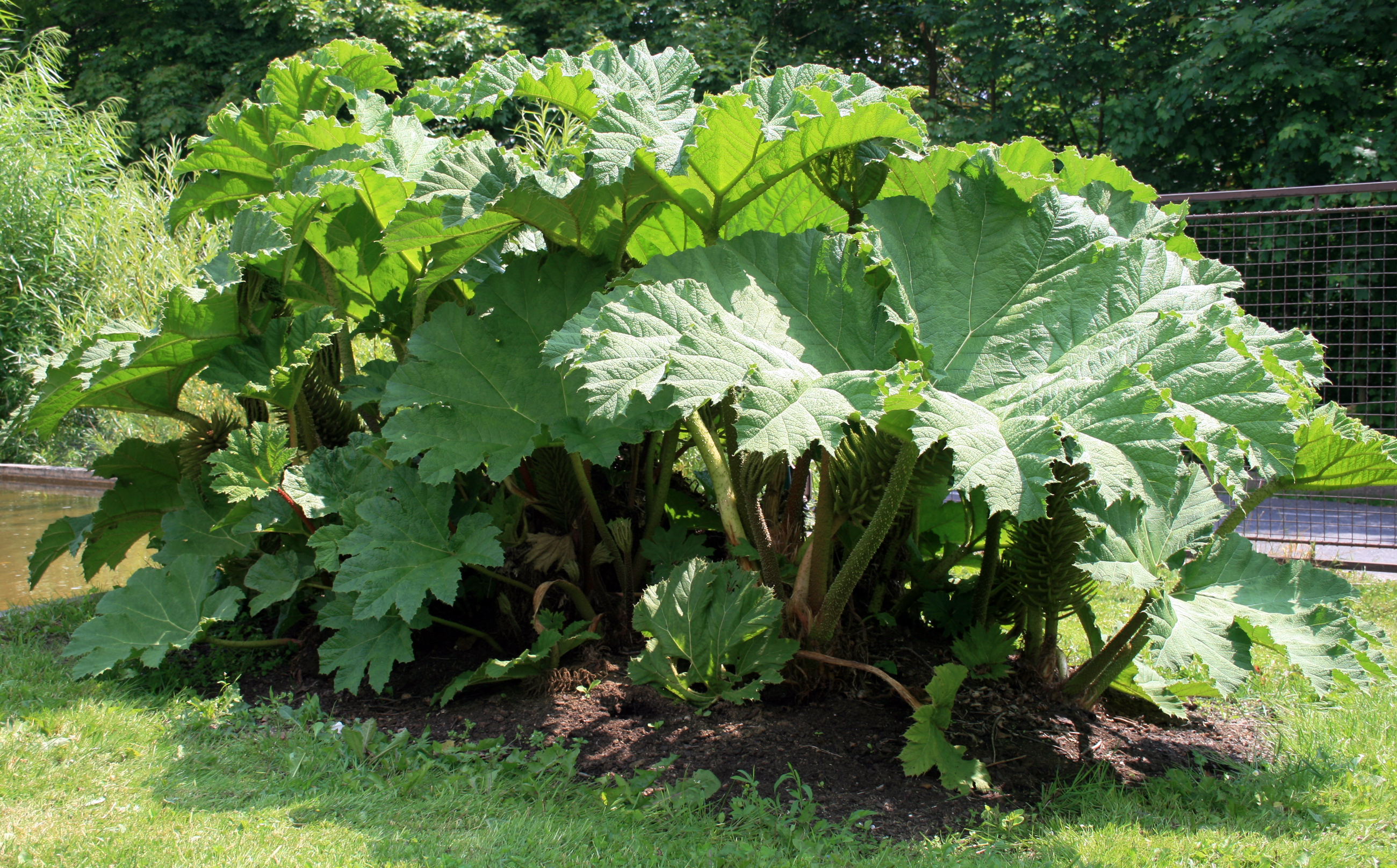 Gunnera tinctoria in Botanical Garden Liberec, Czech Republic